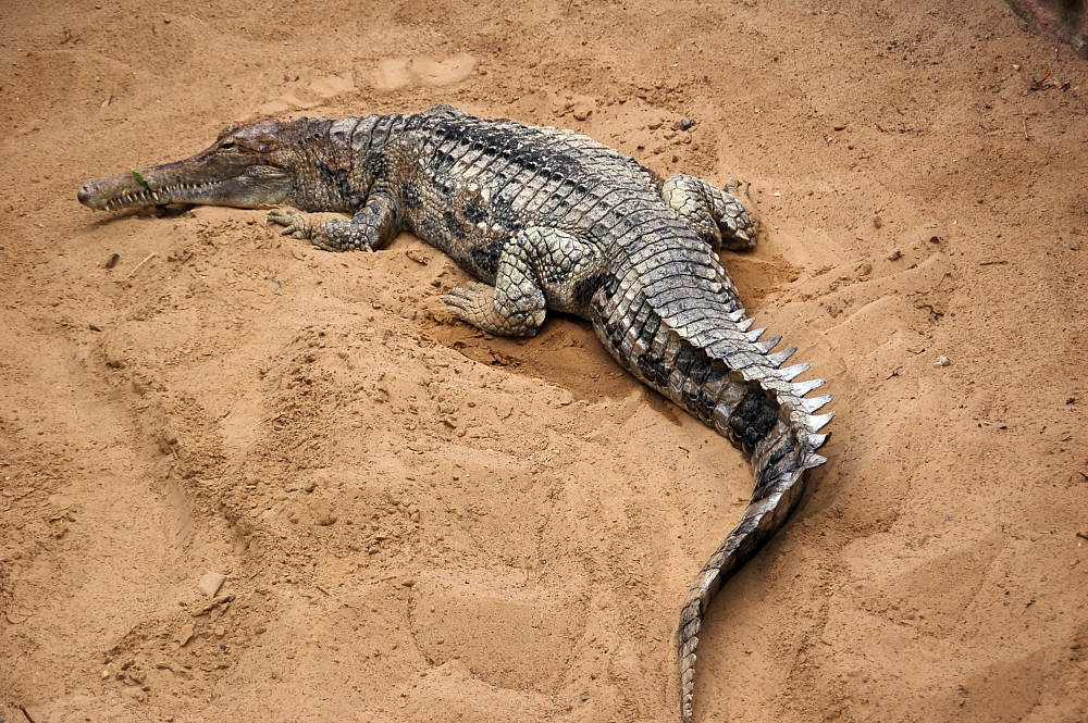 Tomistoma schlegelii, Zoological Garden Berlin, Germany